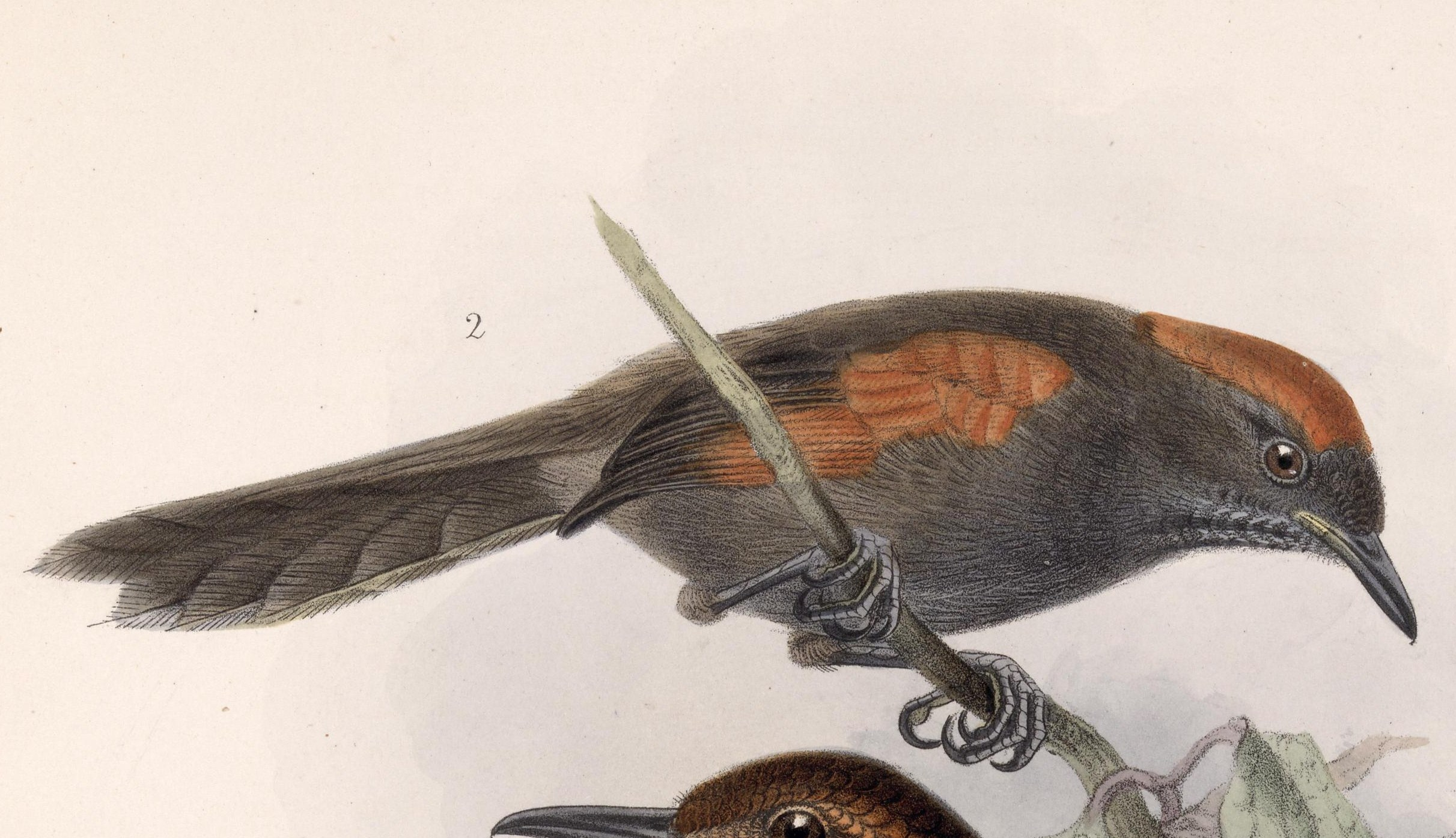 « Synallaxis pudica » = Synallaxis brachyura (Slaty Spinetail)